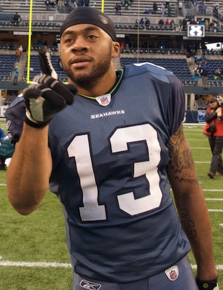 Seattle Seahawks wide receiver Keary Colbert on the field after the game against the Philadelphia Eagles on November 2, 2008 at Qwest Field.